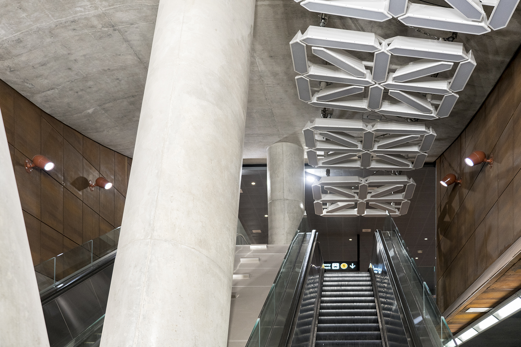 Station Platform and "LightSpell" artwork by realities:united